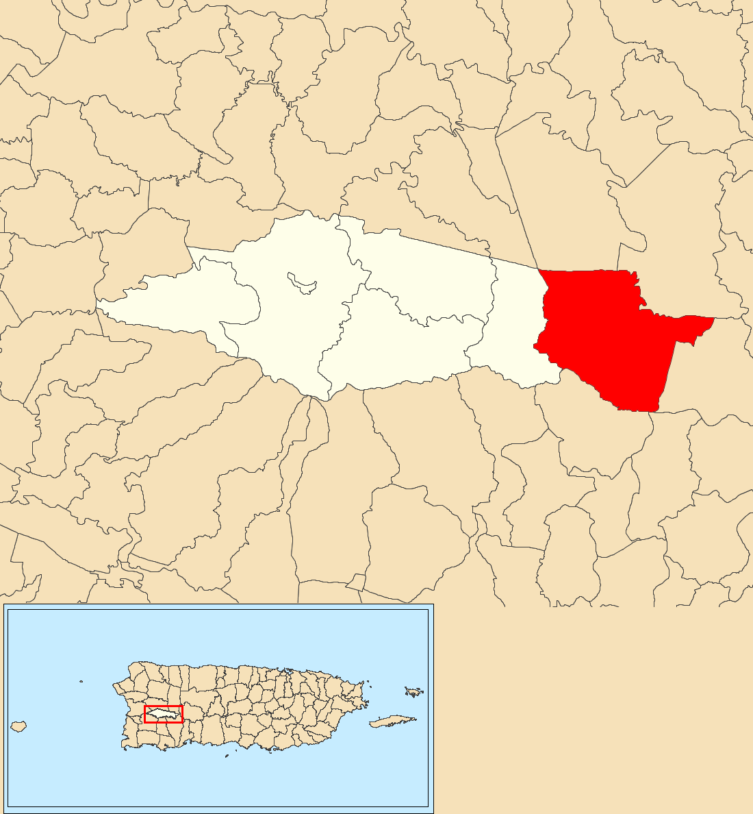 Indiera Alta, Maricao, Puerto Rico locator map